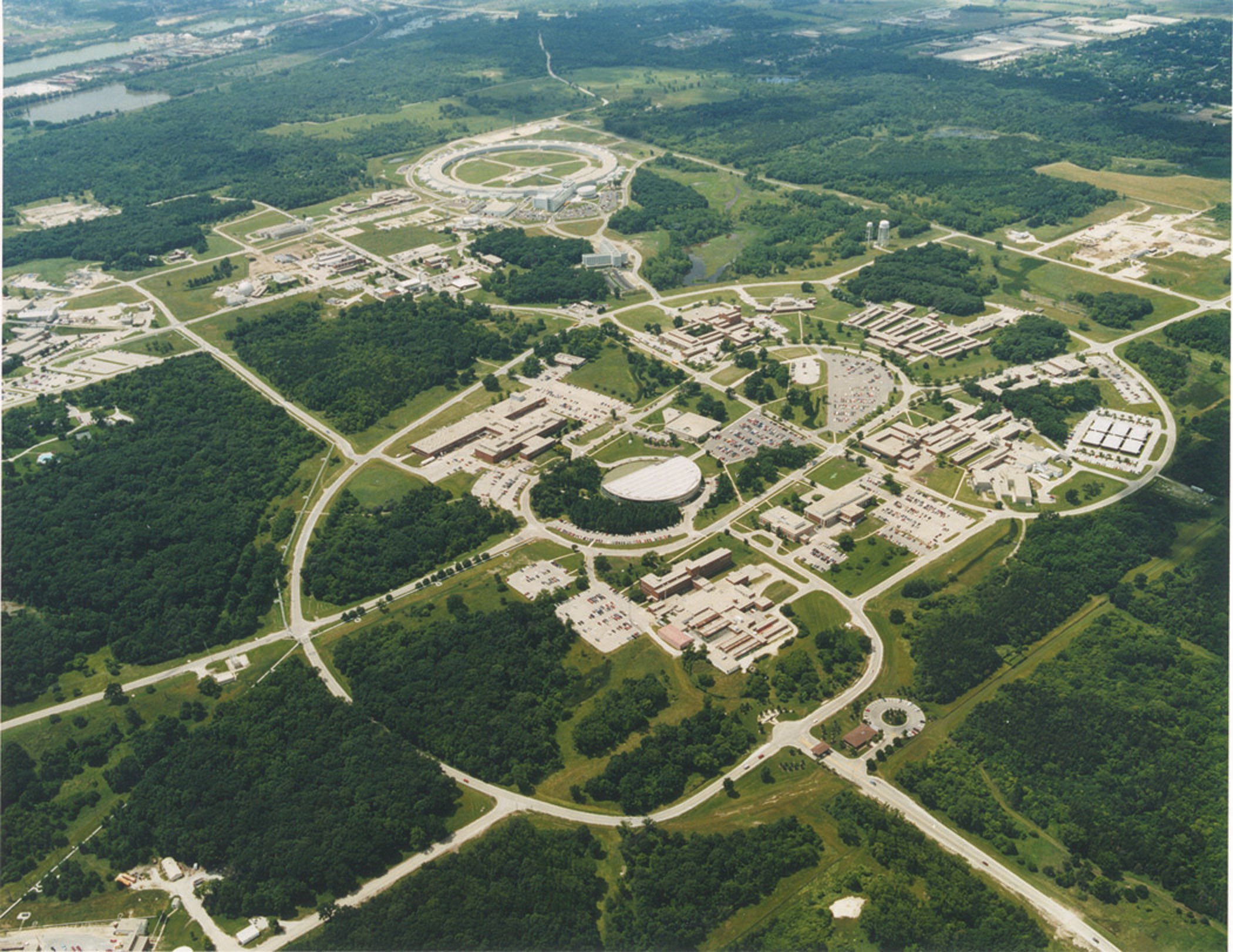 Aerial view of Argonne's Illinois site - This view, from almost a mile in the air, shows part of Argonne National Laboratory's Illinois site. The site, about 25 miles southwest of Chicago, comprises about 1,500 wooded acres. Argonne National Laboratory photo.